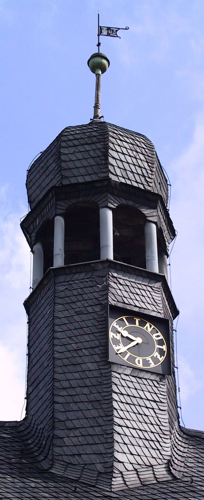 Church tower of the Church in Saara, Thuringia, Germany.